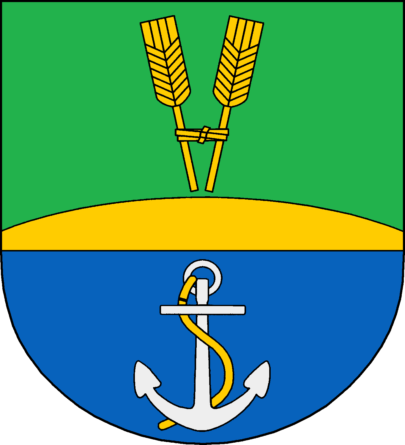 Coat of arms of the municipality Kollmar in Schleswig-Holstein, Germany.